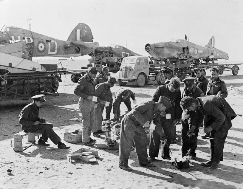 Royal Air Force Operations in the Middle East and North Africa, 1939-1943 Personnel of No. 53 Repair and Salvage Unit brew tea and stretch their legs in the Western Desert while transporting salvaged Hawker Hurricane fuselages to Helwan, Egypt..